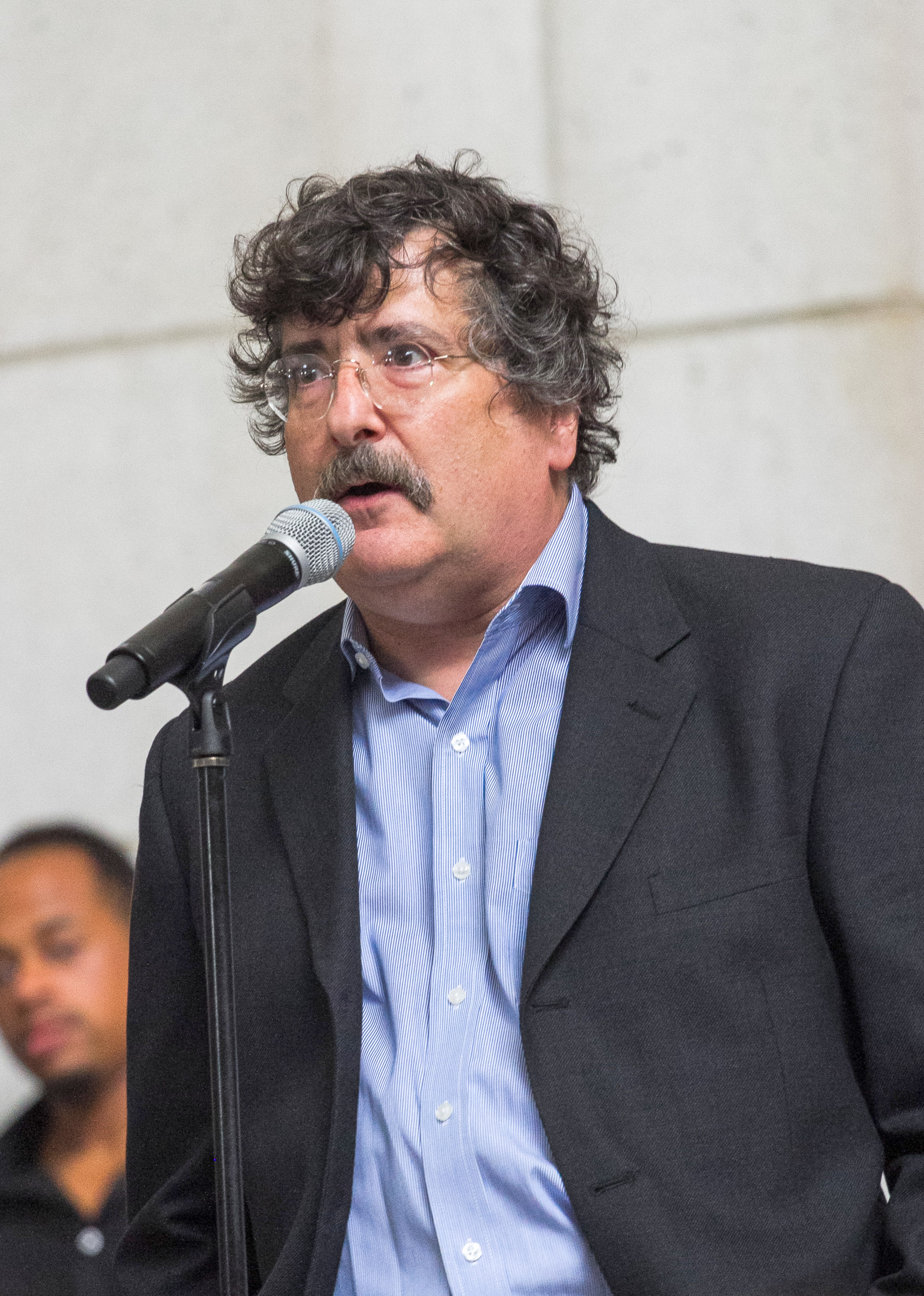 Gene Weingarten speaking before Joshua Bell concert at Union Station in DC